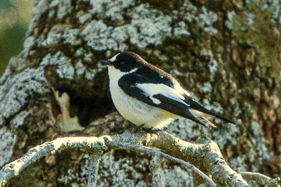 Atlas Flycatcher (Ficedula speculigera) from Northwest Africa.